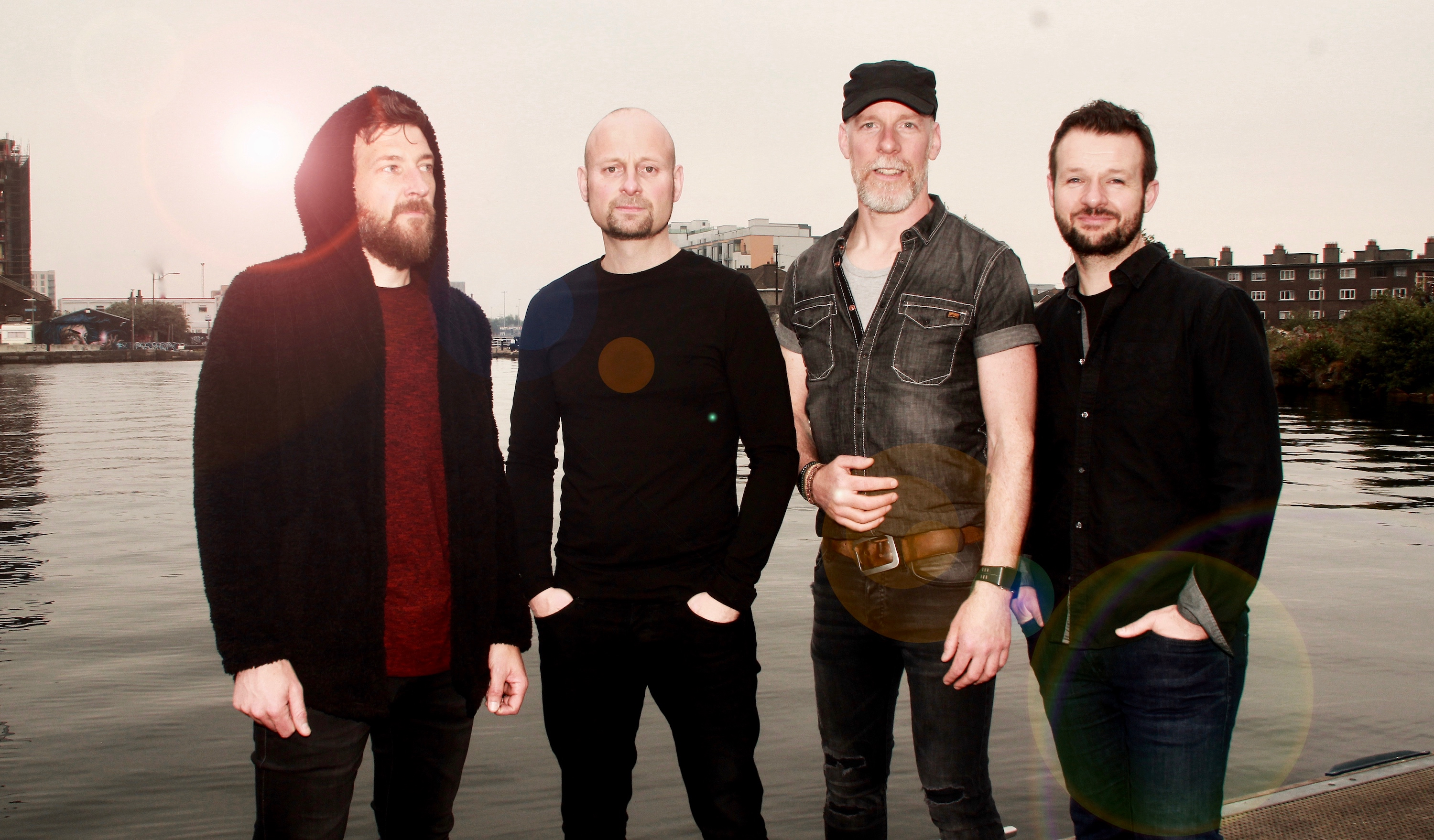 Promo Photo